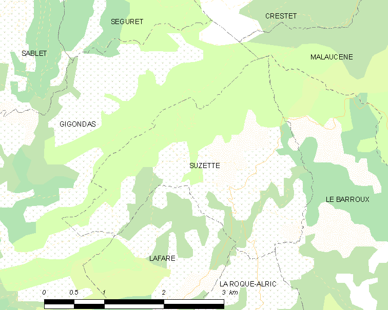 Map of French municipality Suzette